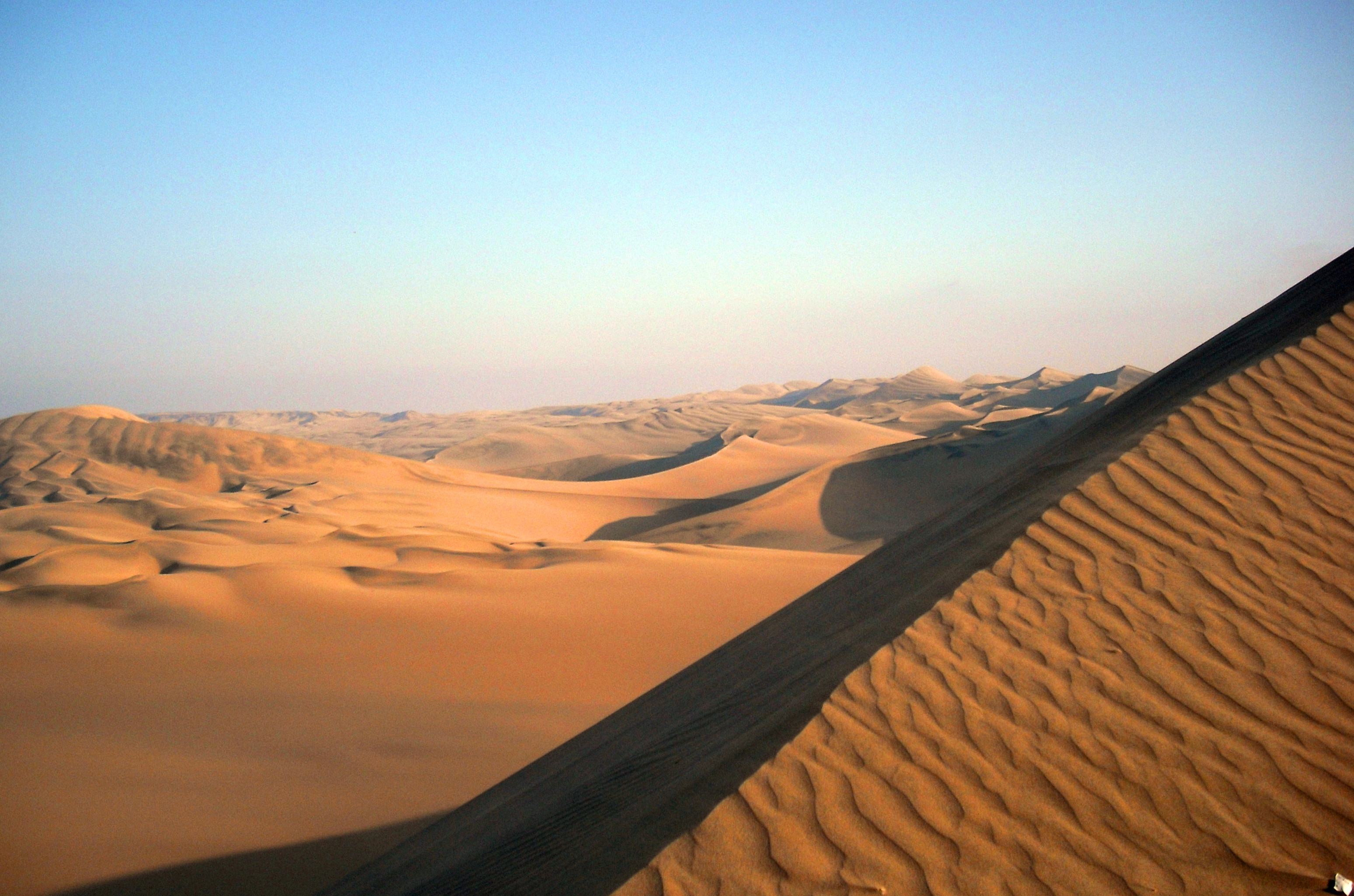 Huacachina, Peru, Sand Dunes